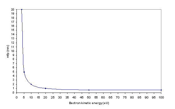 The mean free path of electrons follows a "universal curve" that is almost independent of material. Lower energy electrons have a longer mean free path due to fewer inelastic scattering mechanisms available. Furthermore, electrons with higher energies will travel further within the sample to reach the same final energy as lower energy electrons. The mean free path curve is based on data references,[1][2]. References ↑ A. Zangwill, Physics At Surfaces (Cambridge University Press, 1988), p.21. ↑ L. C. Feldman and J. W. Mayer, Fundamentals of Surface and Thin Film Analysis (North-Holland, 1986), p.129.